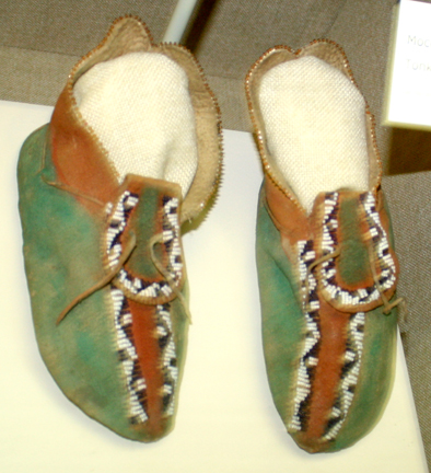 Tonkawa beaded moccasins, Oklahoma, 1880, collection of Oklahoma History Center